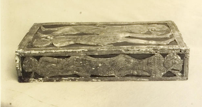 Harry Burton: Tutankhamun tomb photographs: a photographic record in 5 albums containing 490 original photographic prints ; representing the excavations of the tomb of Tutankhamun and its contents. Vol. 5